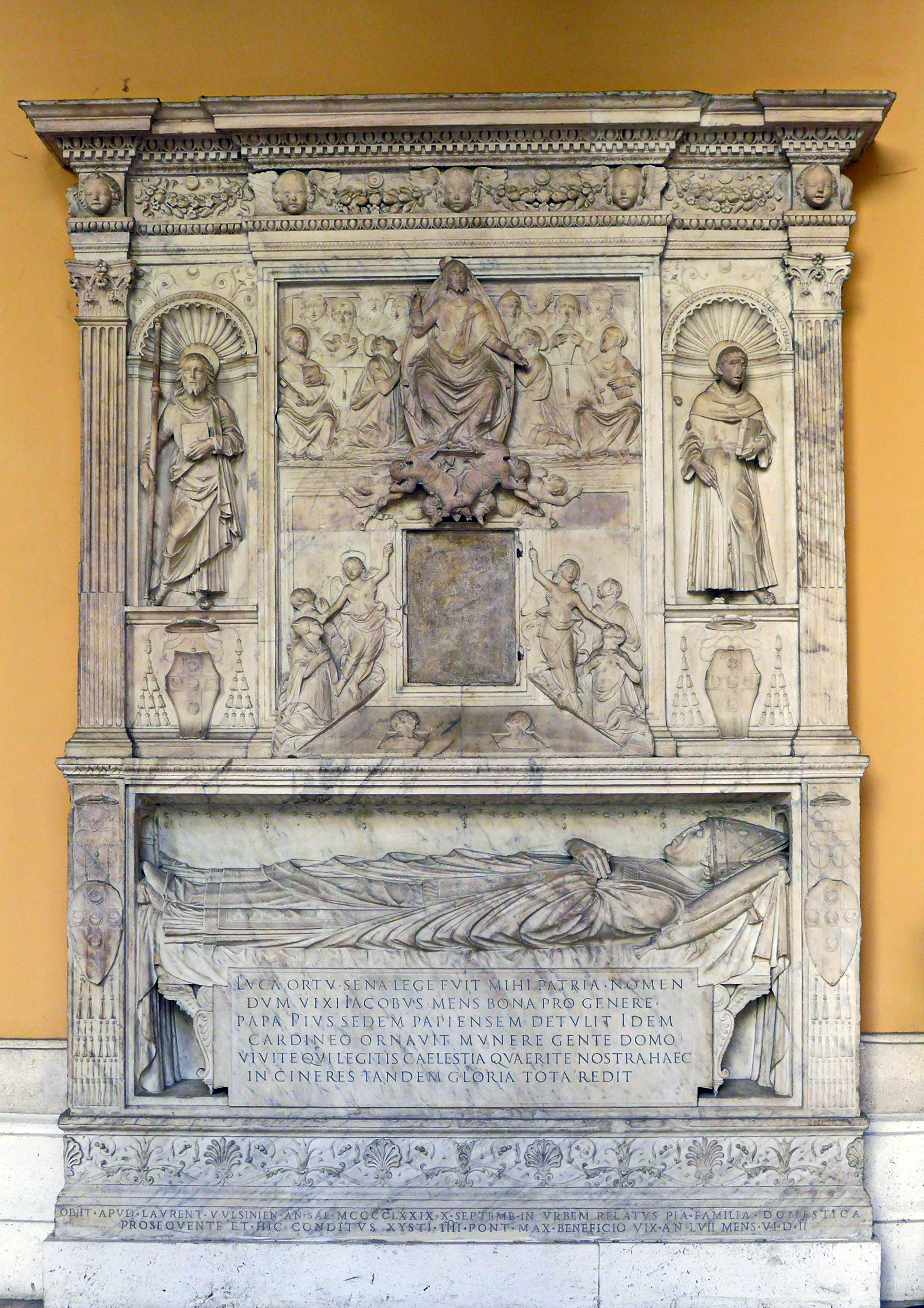 Funeral monument for Cardinal Jacopo Ammanati Piccolomini, Sant' Agostino, Rome